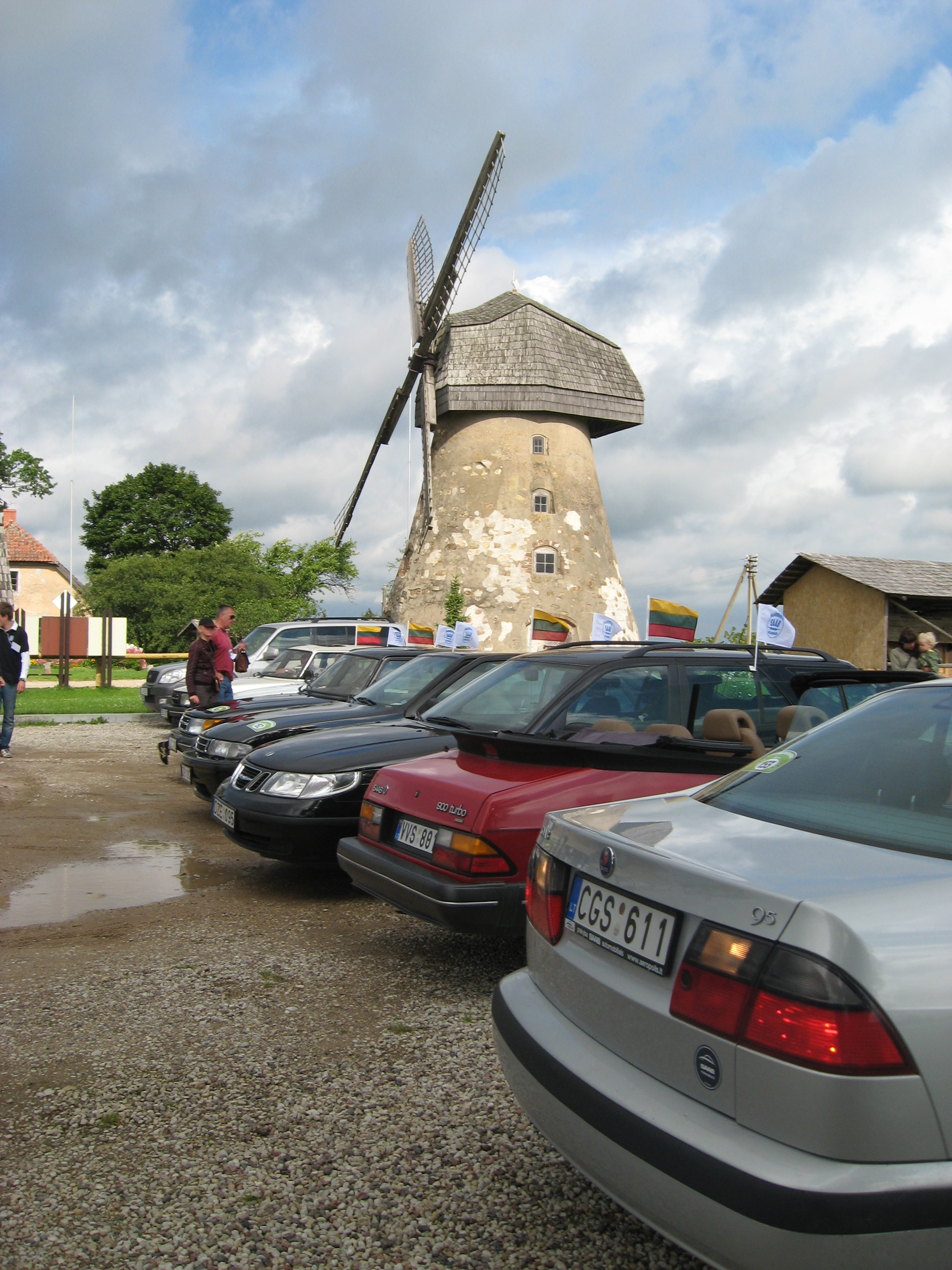 Windmill in the vicinity of Cesis, Latvia